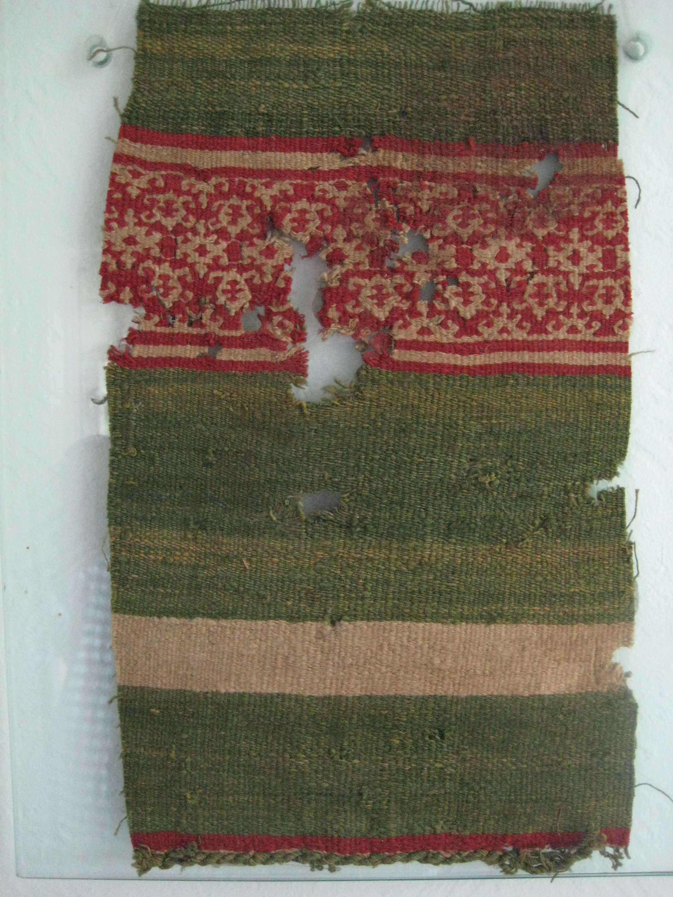 Coptic textile